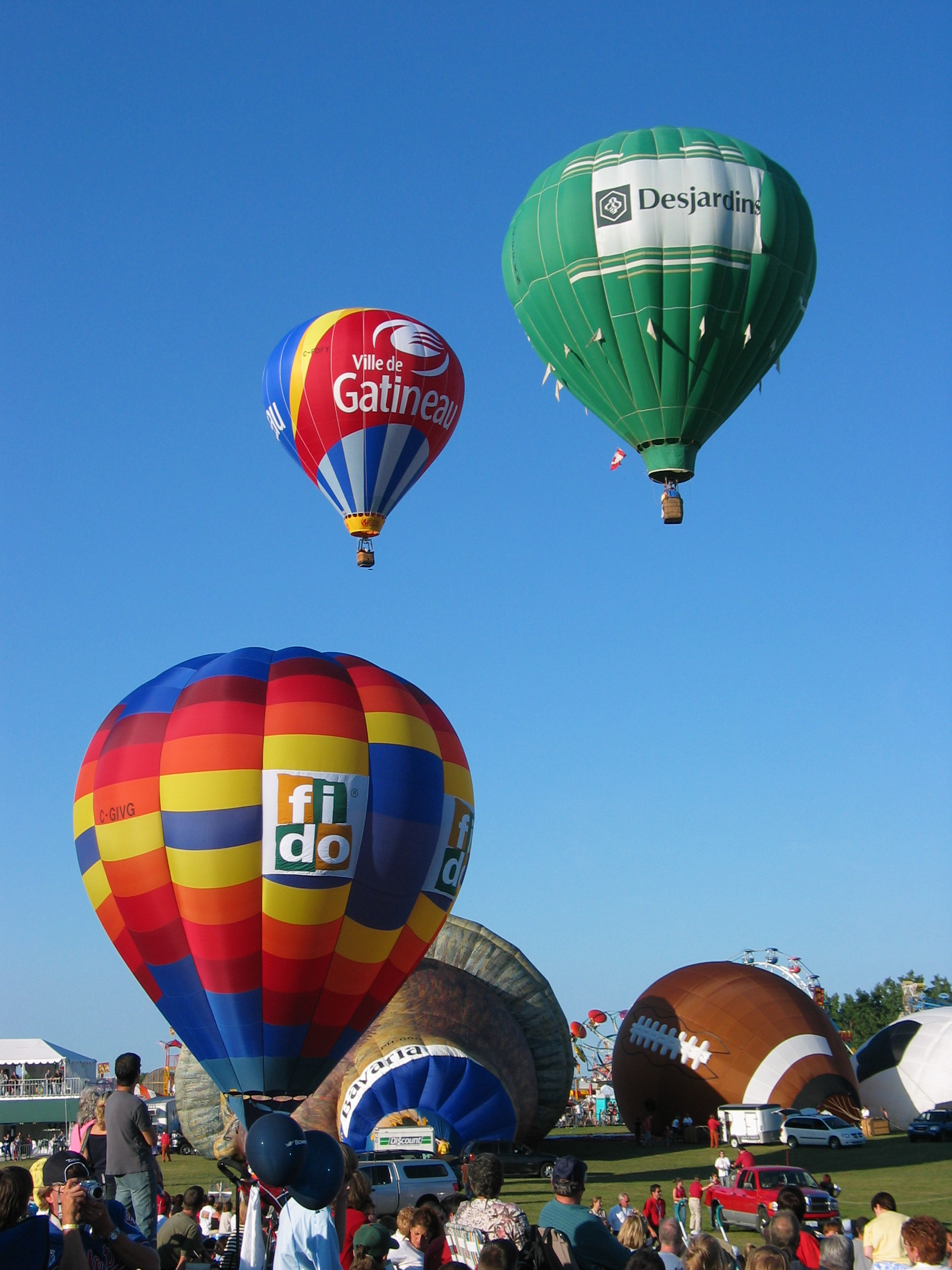 Balloons at the Gatineau Hot Air Balloon Festival.